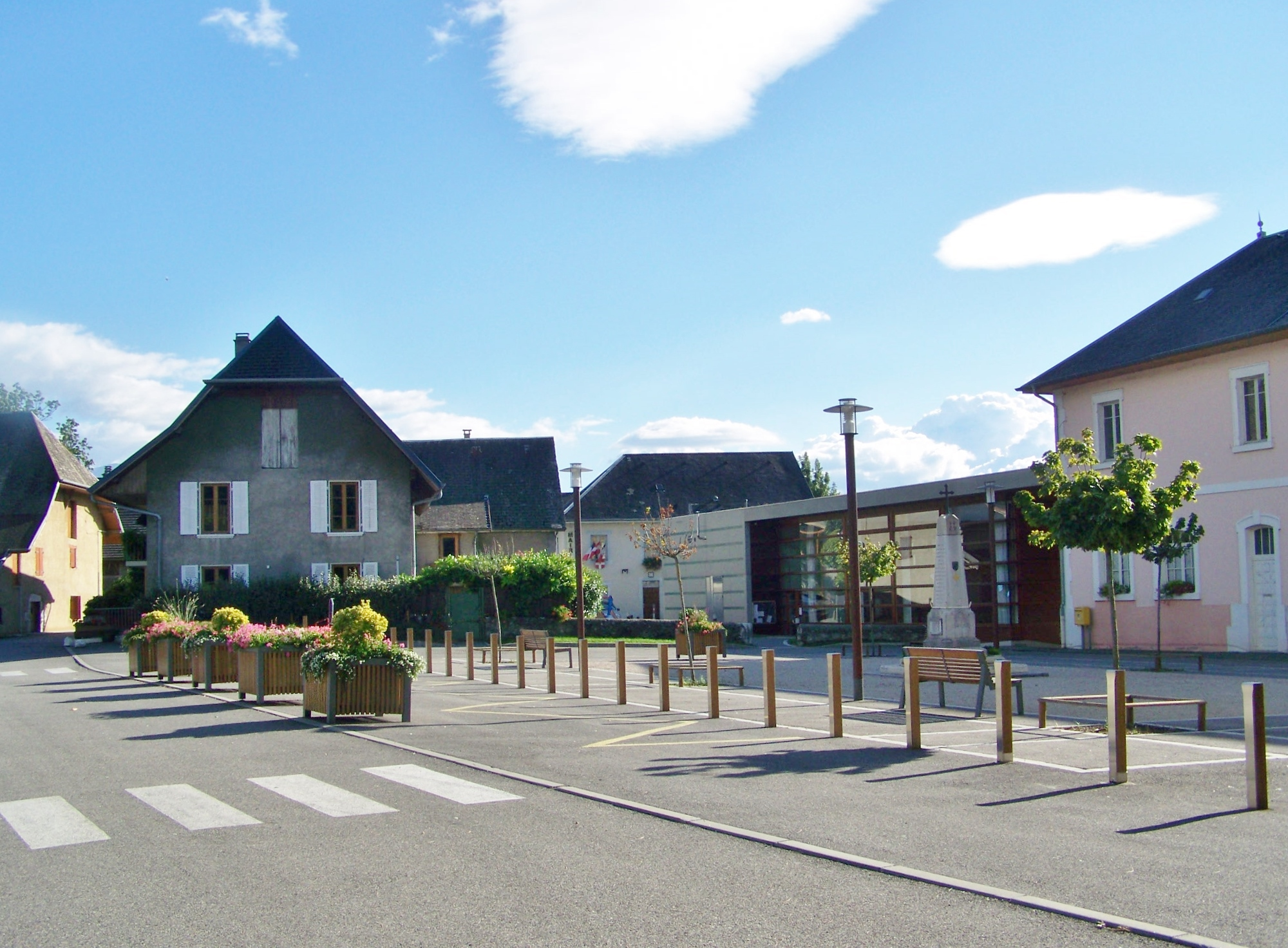 Head of town of Sonnaz, in the North of Chambéry, in Savoie, with the town hall visbible on the right.